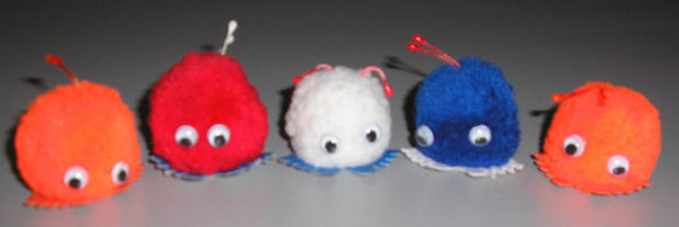 The weepul (also known as a weeple or wuppie) is a small, spherical, fluffy toy, with large, plastic googly eyes, and no limbs. Distributed by Albert Heijn supermarkets in a promotion for the FIFA World Cup 2006.